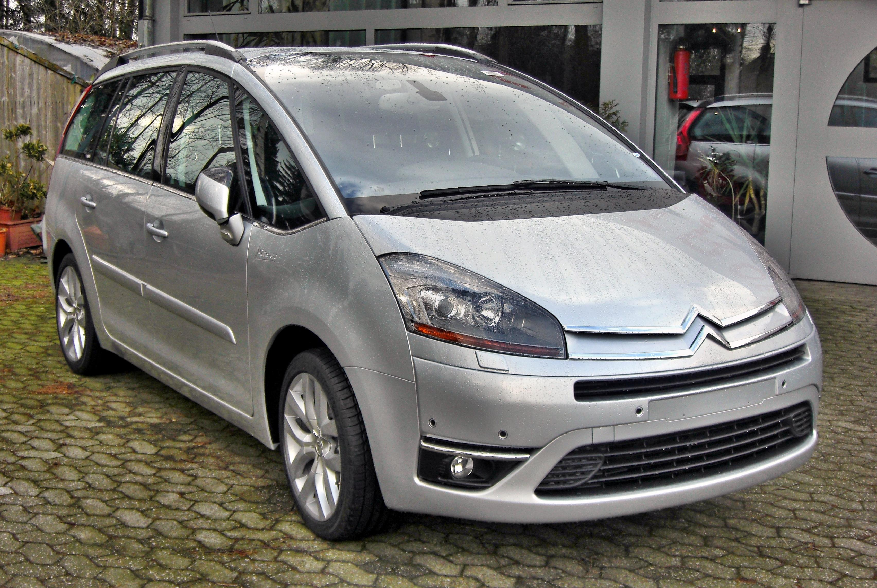 Citroën Grand C4 Picasso